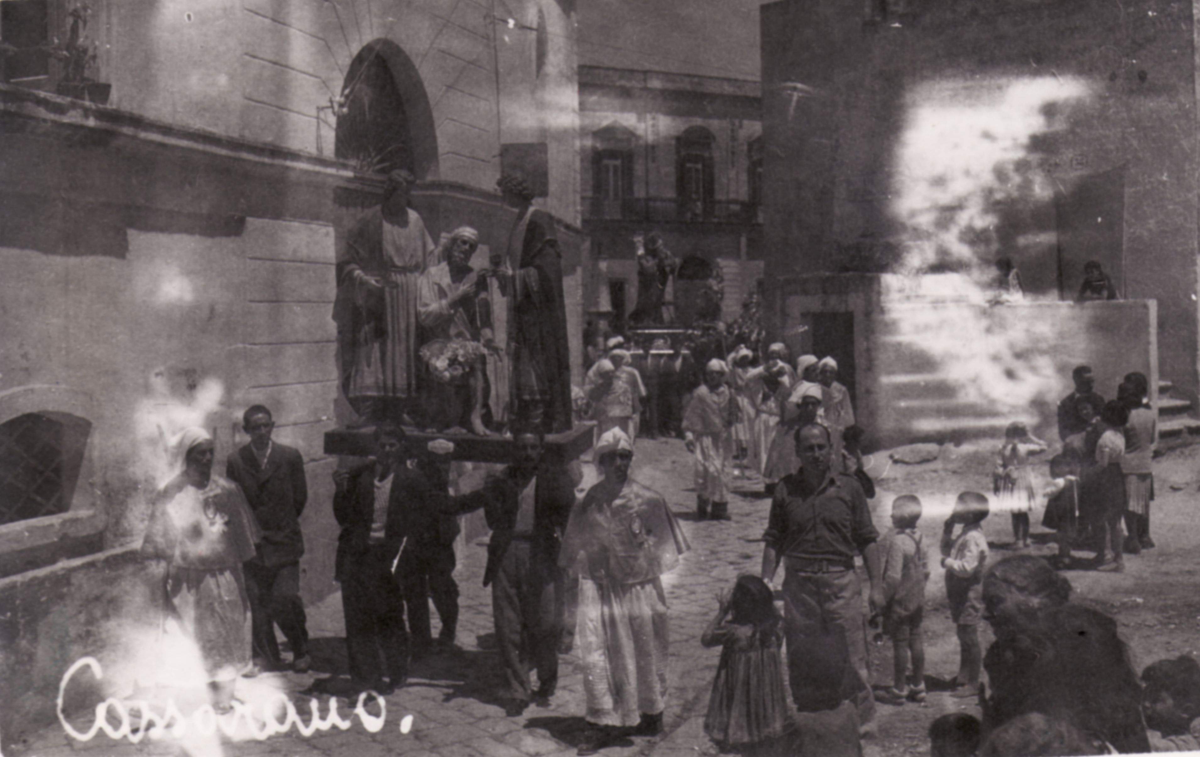 Soldiers from Polish II Corps take part in religious procession in Casarano, Italy.